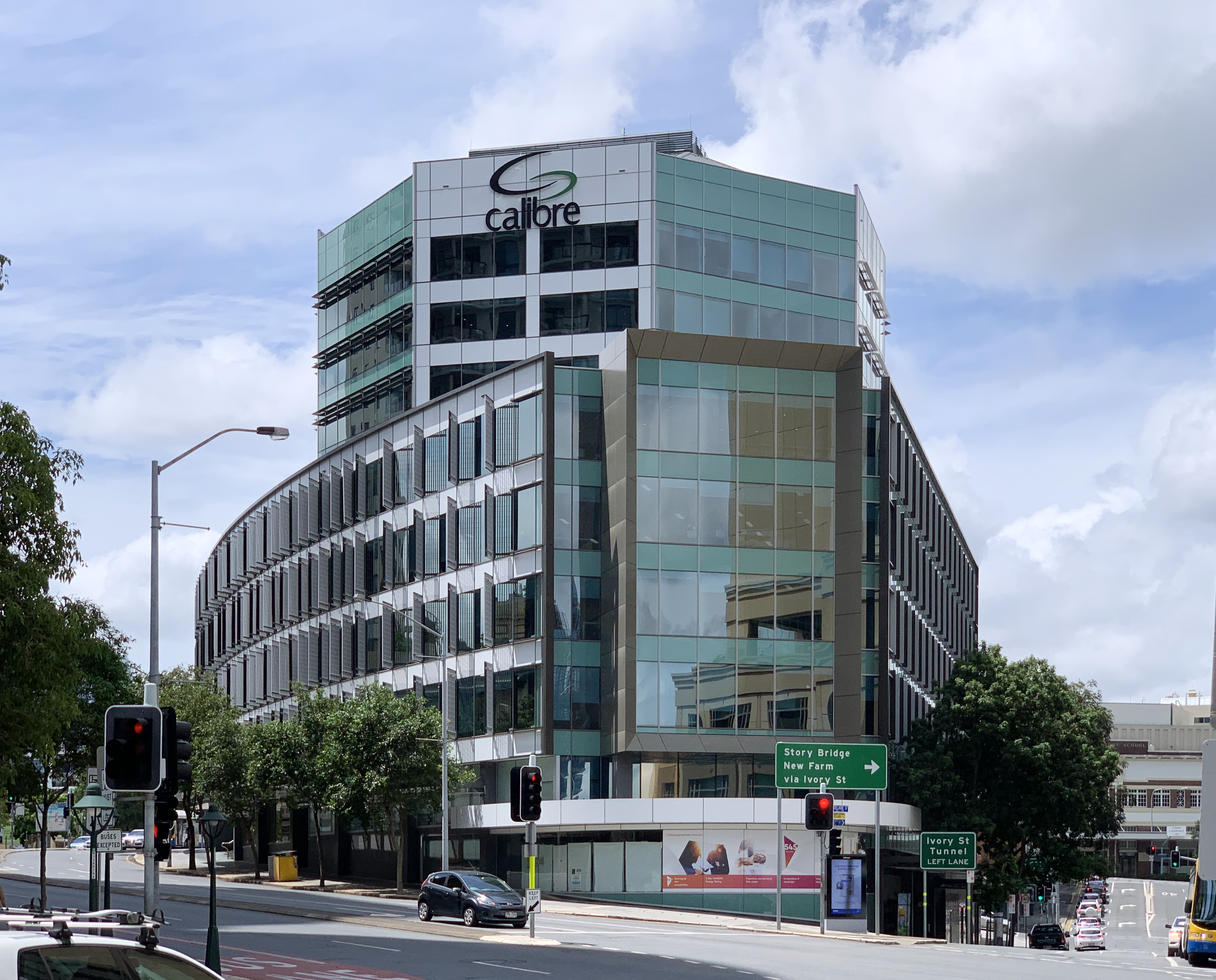 545 Queen Street, Brisbane in February 2020